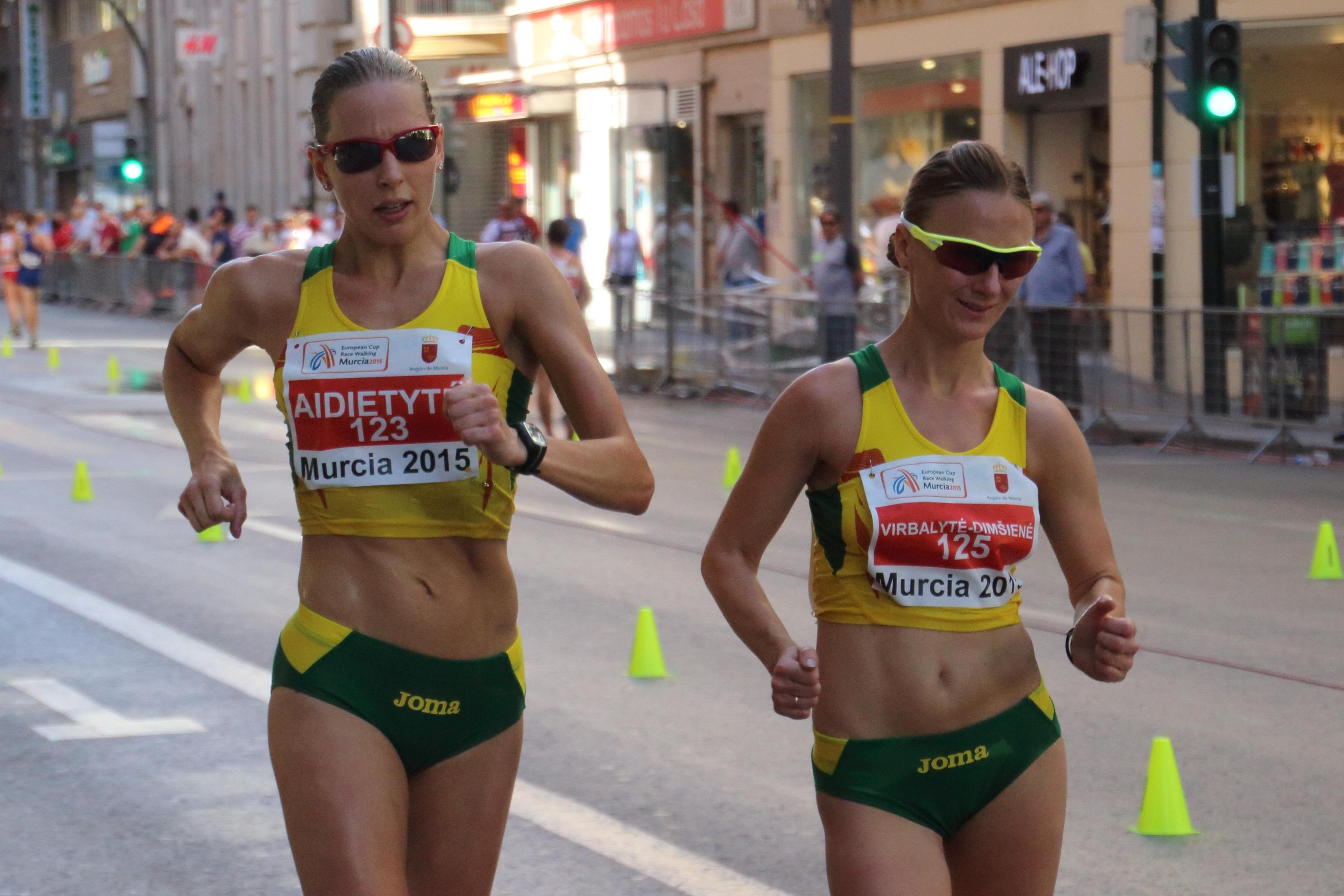 Neringa Aidietytė and Brigita Virbalyté, lithuanian race walkers in the European Cup Race Walking 2015 (Murcia, Spain).